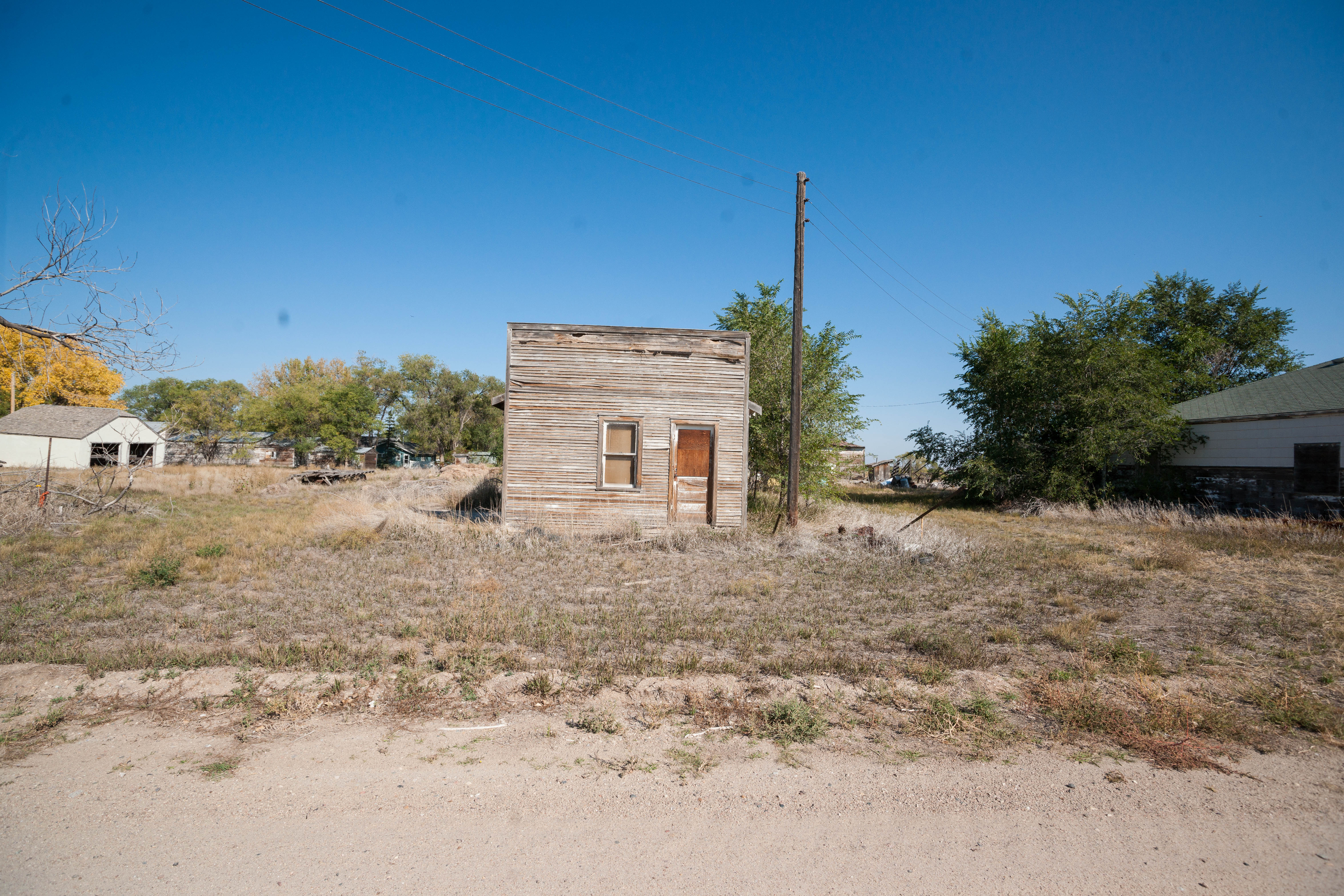 From